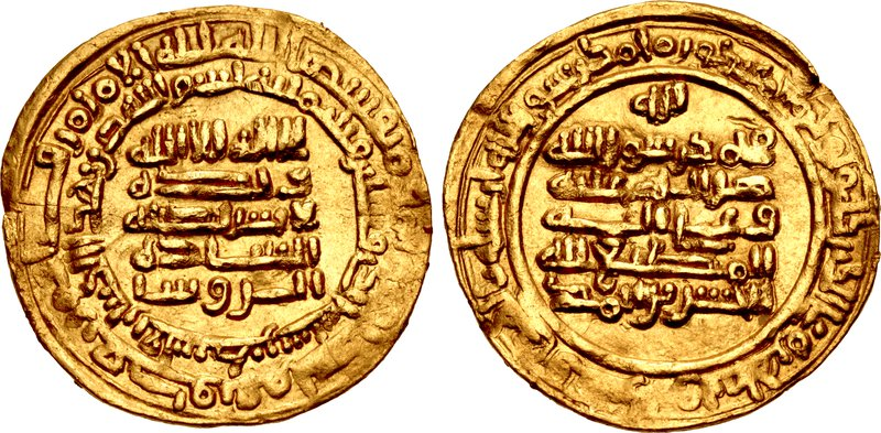 Original caption: ISLAMIC, Syria & al-Jazira (Pre-Seljuq). Qaramita (Qarmatids). al-Hasan ibn Ahmad. fl. AH 361-364 / AD 972-975. AV Dinar (22mm, 3.27 g, 1h). Filastin (al-Ramla) mint. Dated AH 361 (AD 971/2). First portion of the kalimat at-tawḥīd: lā ilāha illā-llāhu waḥdahu lā sharīka la (there is no god except Allah, and one [is] he; (there is) no partner to him) and al-sadat al-ru’asa (the chief sayyids) in five lines; in outer margin, Sura 30 [al-rum]:3-4 li-’llah al-amru min qablu wamin ba’du wayawma-idhin yafrahu al-mu’minūna binaṣri al-lahi (To Allah is the will before and after and on that day the believers shall rejoice in Allah’s victory); in inner margin, b-ismi-llāh zarb hazā āl-dinar bi-filastin fī sanat ihdā wa sittīn wa thelath mi’at (in the name of Allah struck this dinar in Filastin in the year one and sixty and three hundred (after the Hijra)) / Second portion of the kalimat aṭ-ṭaiyibah: muḥammadur rasūlu -llāh, ṣallā Allāhu ‘alayhi wa-ala ālihi (blessings of Allah be upon him and his family), name of ’Abbasid caliph al-Mutī'a, and name of al-Hasan ibn Ahmad in five lines; li-’llah above; in outer margin, the “Umayyad Second Symbol” (Sura 9 [al-tauba]:33): [muḥammadur] rasūlu-llāh arsalahu bi-’lhudā wa dīn al-haqq lī-yuzhirahu ’ala al-dīn kollihi walau ka[riha al-mushrikūn] (Muhammad is the messenger of Allah; him He sent with guidance and true faith to make it prevail over all other faiths even though the polytheists may hate it). Vardanyan, Sectarians 11; Album 684; ICV 803. Good VF, minor weak strike at periphery. Very rare. Qaramita was the popular nickname of a group of Isma’ili Shīas. After challenging unsuccessfully the ‘Abbasids, the Qaramita established an Isma’ili republic in eastern Arabia. From there, they raided western Arabia and Iraq, stealing the Black Stone of the Kaaba during a raid on Mecca. In AD 909, al-Mahdi, the Qaramita candidate for caliph, with the help of the Berbers, established the Fatimid dynasty.